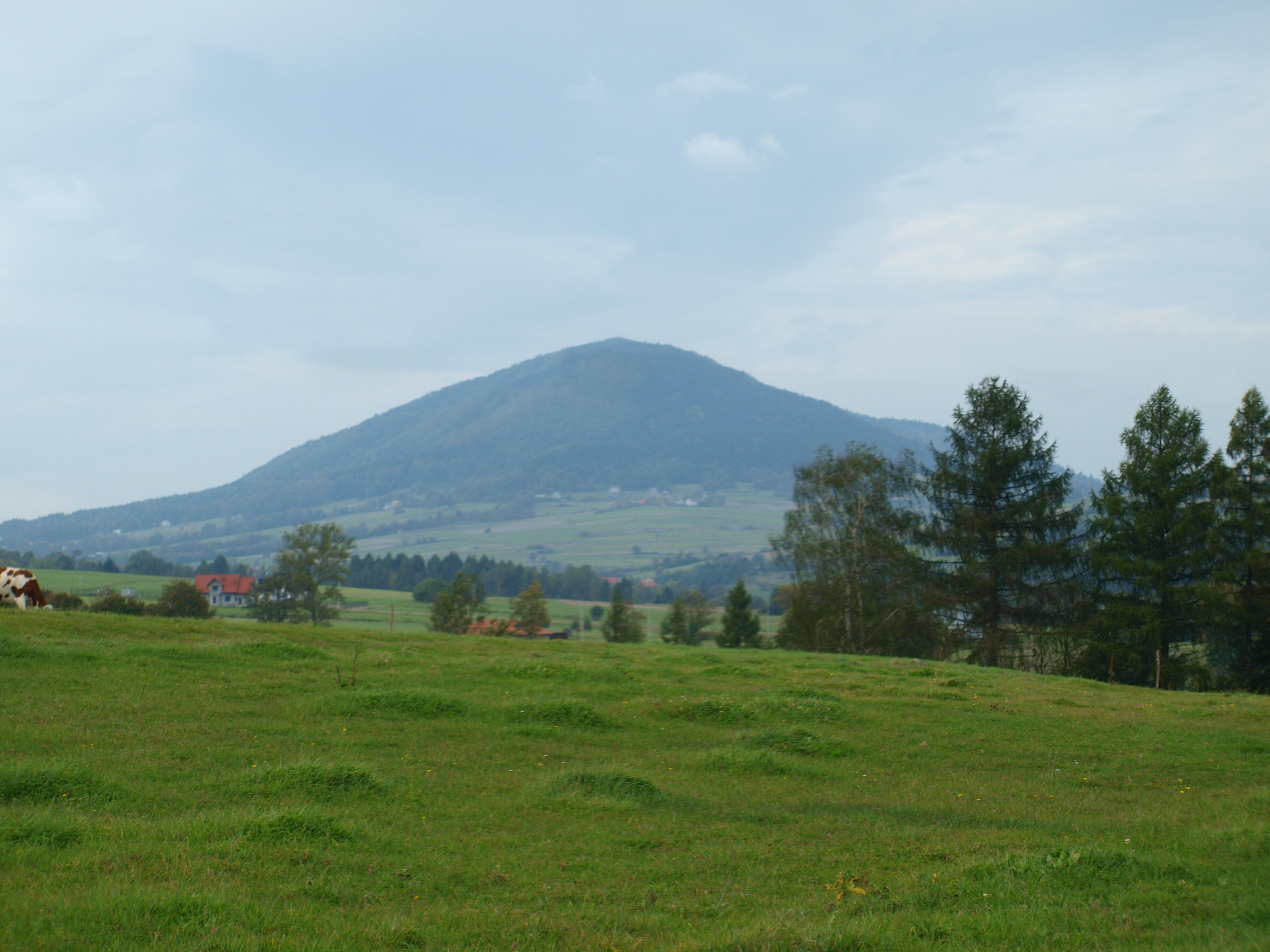 Chełm Grybowski Hill - view from Florynka